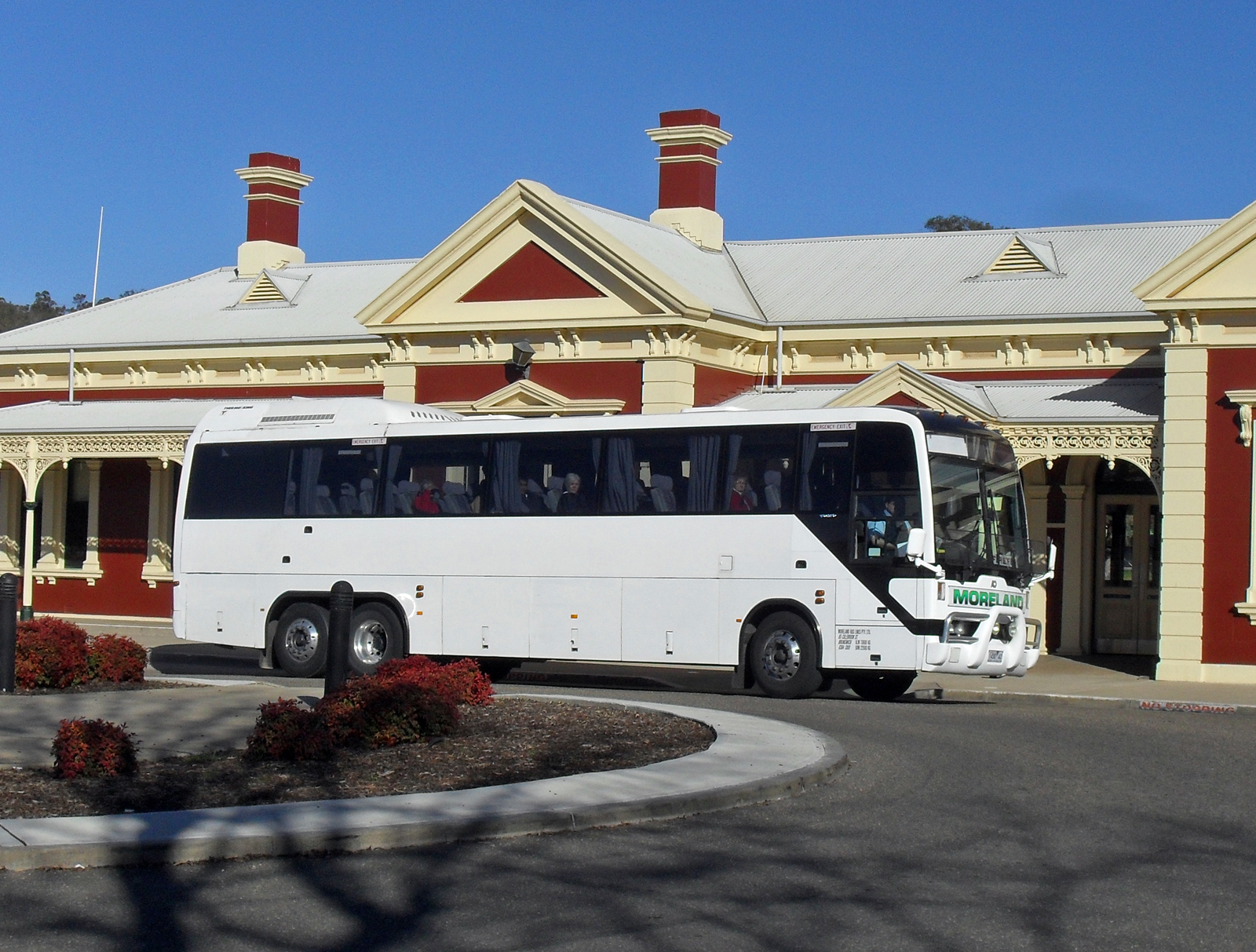 Austral Denning 'Majestic' bodied Volvo B12R (13.5 m) owned by Moreland Buslines leaving Wagga Wagga Railway Station operating the dual Greyhound Australia/Firefly Melbourne to Sydney service.